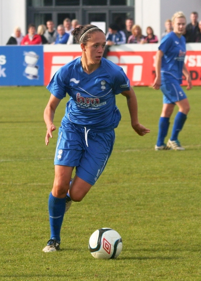 Birmingham City Ladies vs Arsenal Ladies, 7th October 2012